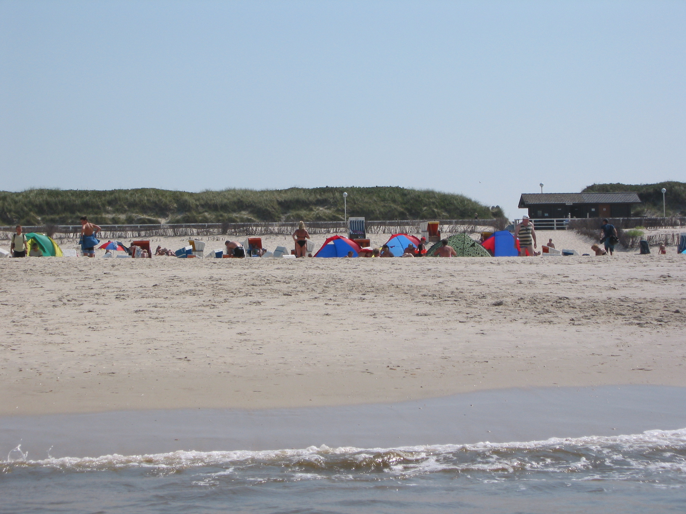 Beach near Westerland, Sylt, Germany, seen from the sea (July 2002).